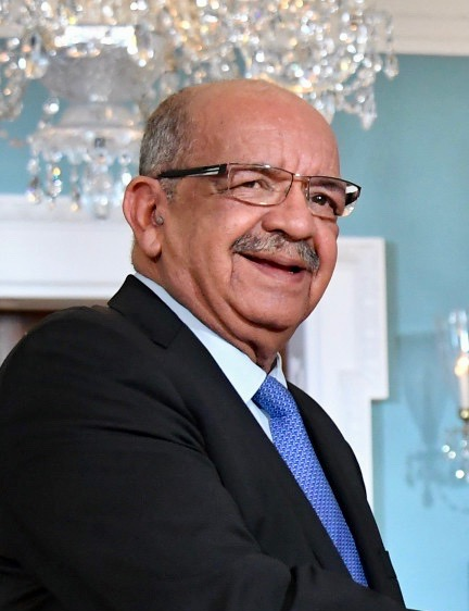 U.S. Secretary of State Michael R. Pompeo shakes hands with Algerian Foreign Minister Abdelkader Messahel at the U.S. Department of State in Washington, D.C. on January 29, 2019. [State Department photo by Michael Gross/ Public Domain]